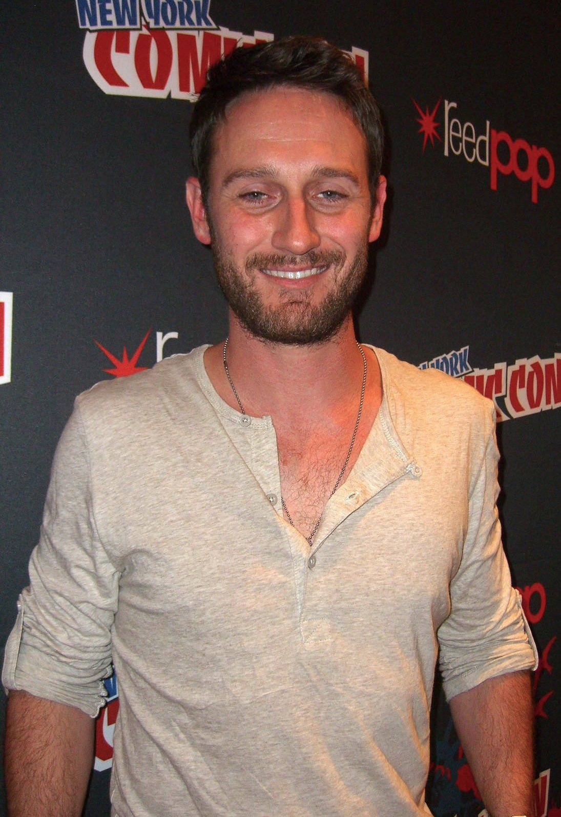 Actor Josh Stewart on Day 4 of the 2012 New York Comic Con, Sunday October 14, 2012 at the Jacob K. Javits Convention Center in Manhattan. This photo was created by Luigi Novi. It is not in the public domain, and use of this file outside of the licensing terms is a copyright violation.